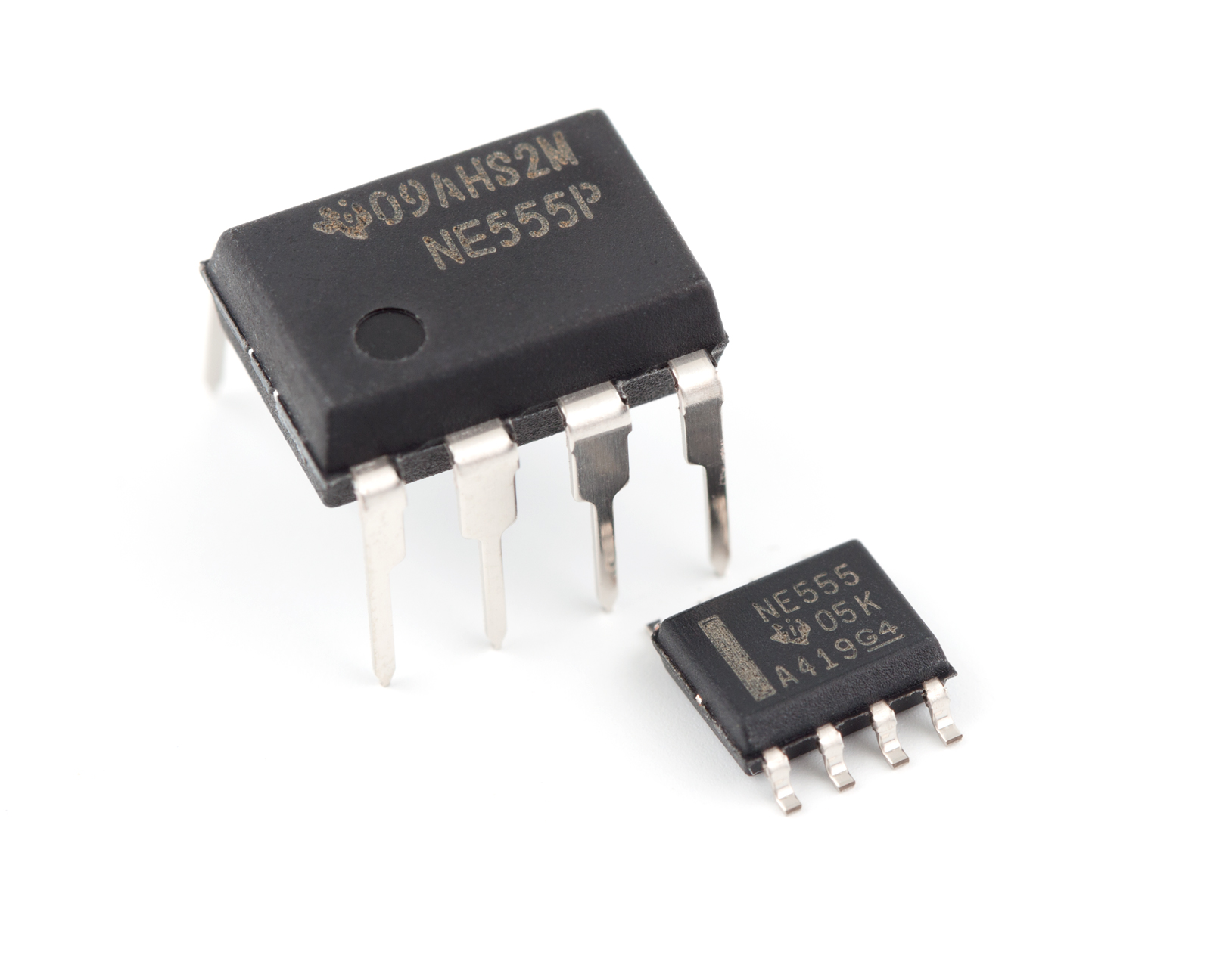 Two NE555 timer ICs in DIP and SOIC packages, manufactured by Texas Instruments